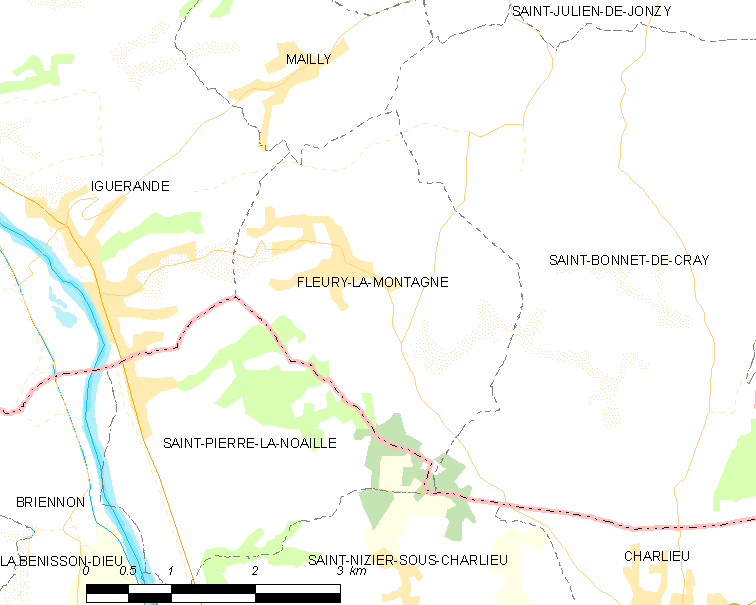 Map of French municipality